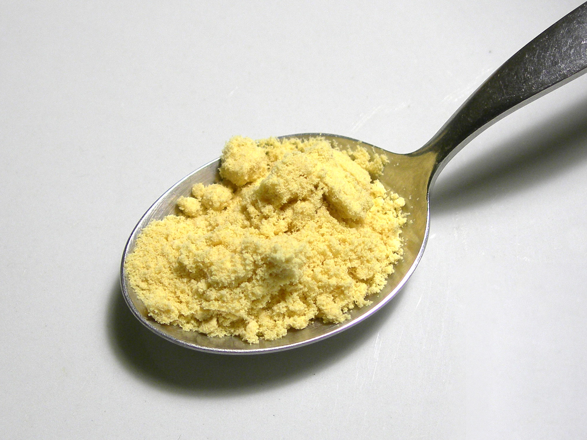 White mustard, powdered